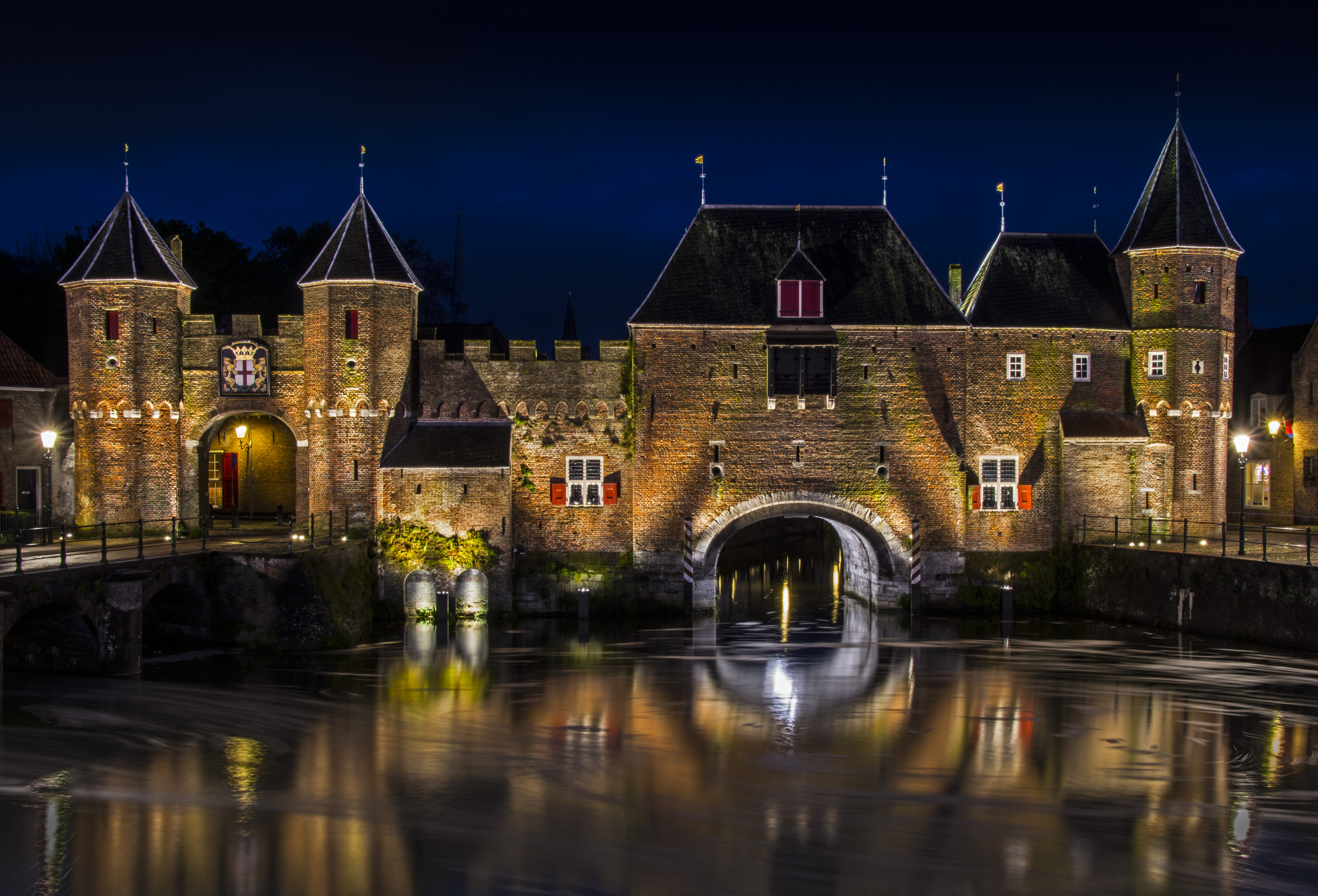 Koppelpoort at night